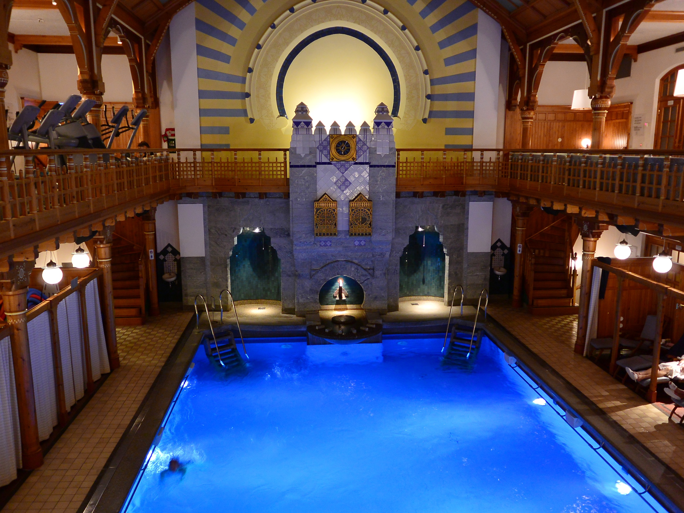 Interior from Sturebadet at Stureplan in Stockholm.